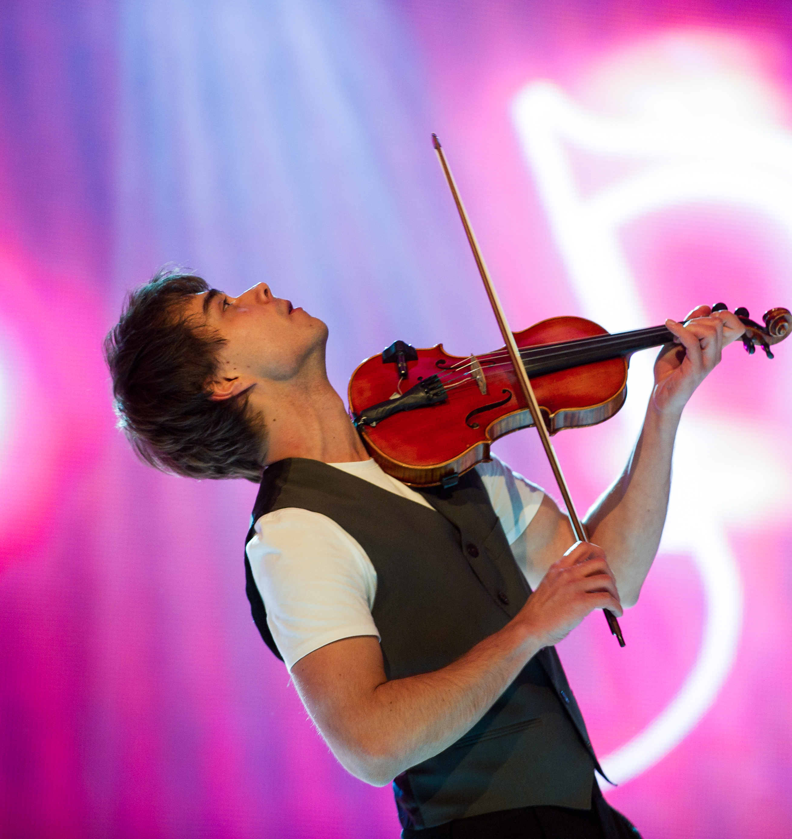 Alexander Rybak